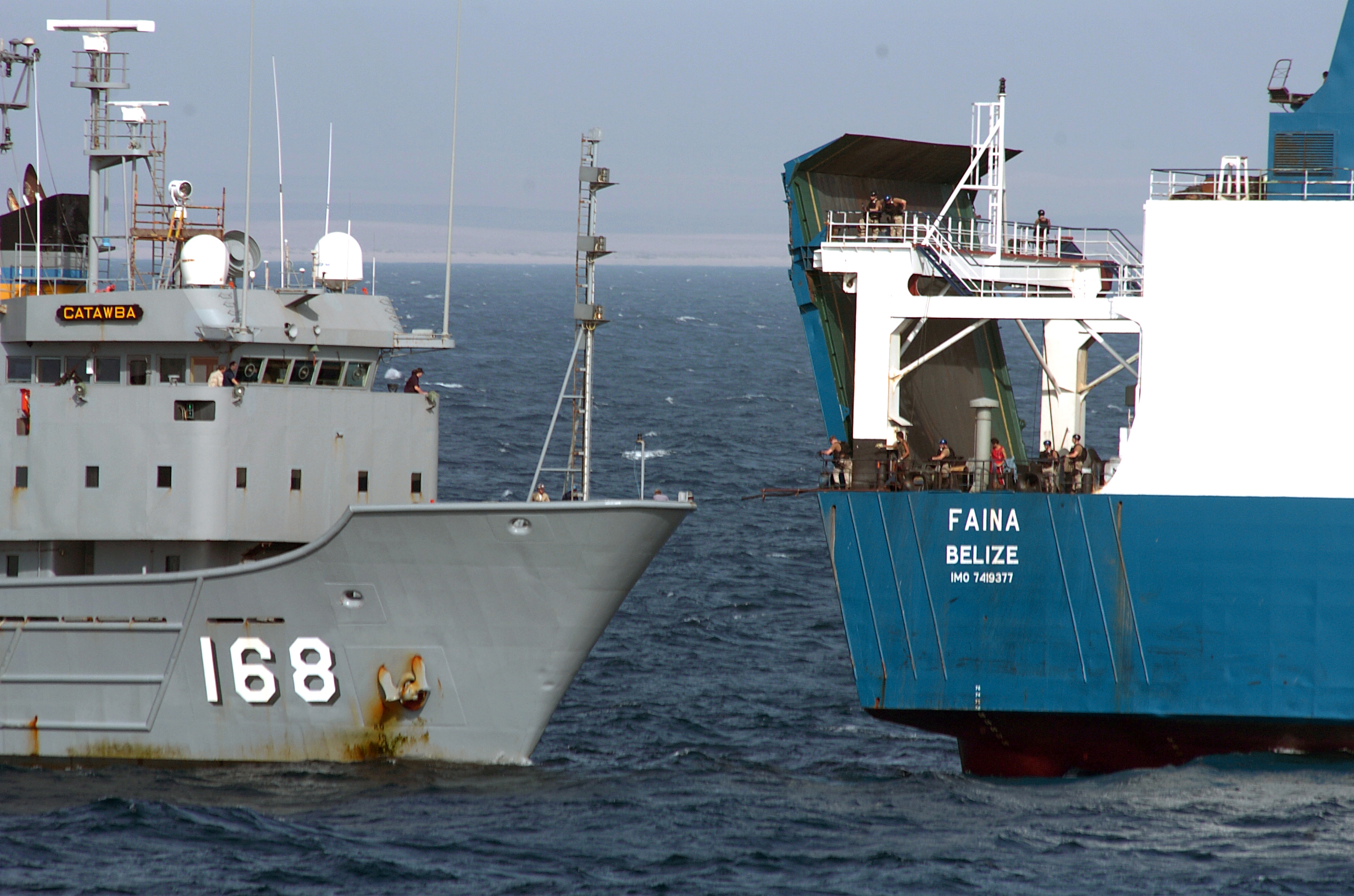 SOMALIA (Feb. 6, 2009) The U.S. Navy fleet ocean tug USNS Catawba (T-ATF 168) provides fuel and fresh water to Motor Vessel Faina following its release by Somali pirates Feb. 5, after holding it for more than four months. The U.S. Navy has remained within visual range of the ship and maintained a 24-hour, 7-days a week presence since it was captured. The Belize-flagged cargo ship is owned and operated by "Kaalbye Shipping Ukraine" and is carrying a cargo of Ukrainian T-72 tanks and related equipment. The ship was attacked on Sept. 25 and forced to proceed to anchorage off the Somali Coast. U.S. 5th Fleet conducts maritime security operations to promote stability and regional economic prosperity. (U.S. Navy photo by Mass Communication Specialist 1st Class Michael R. McCormick/Released)